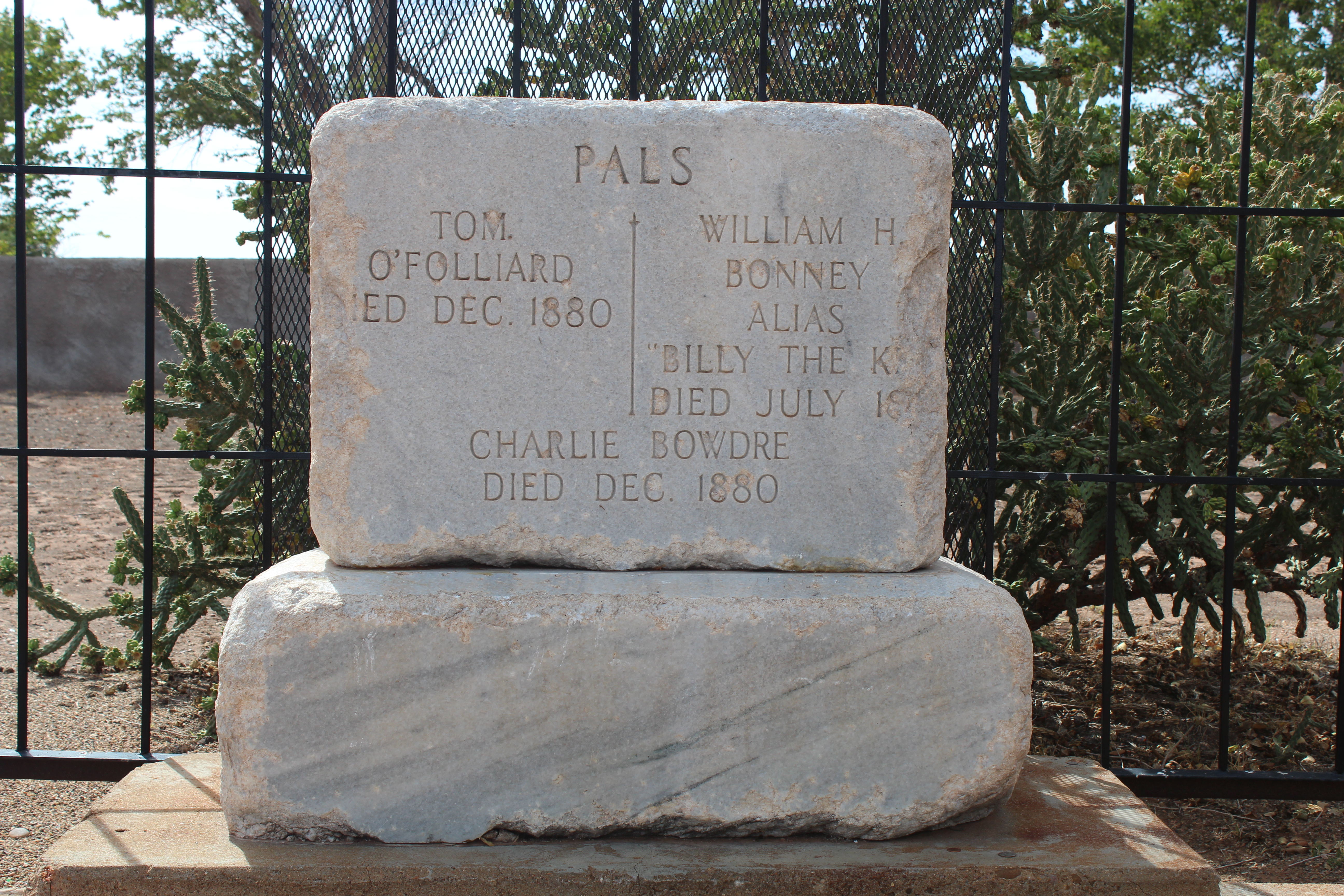 William H Bonney, aka Billy the Kid, Tombstone